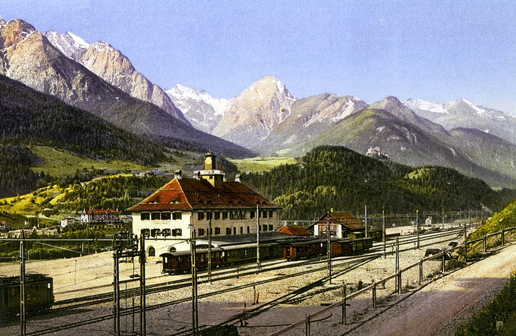 Scuol Bahnhof 1913